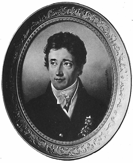 Portrait of Nikita Petrovich Panin (1770–1837)